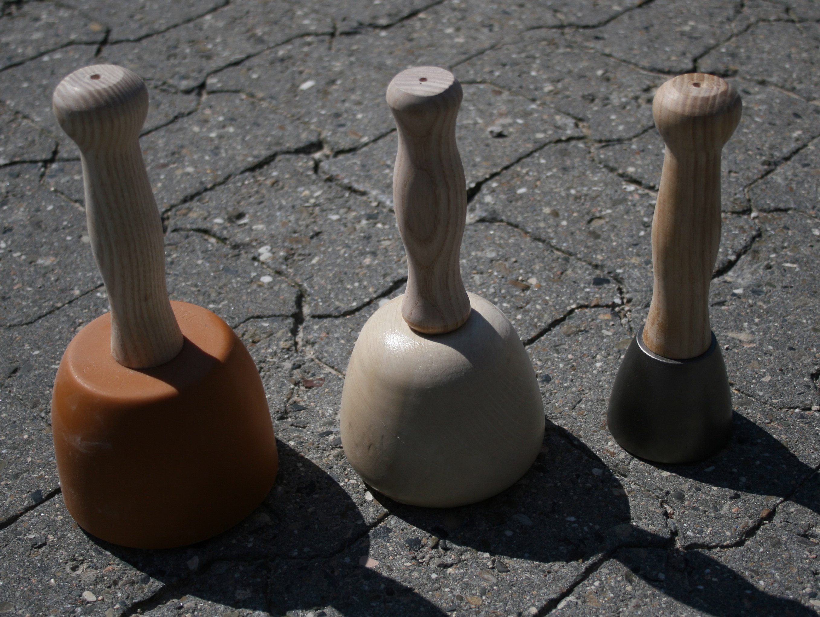 Stonemason's mallets